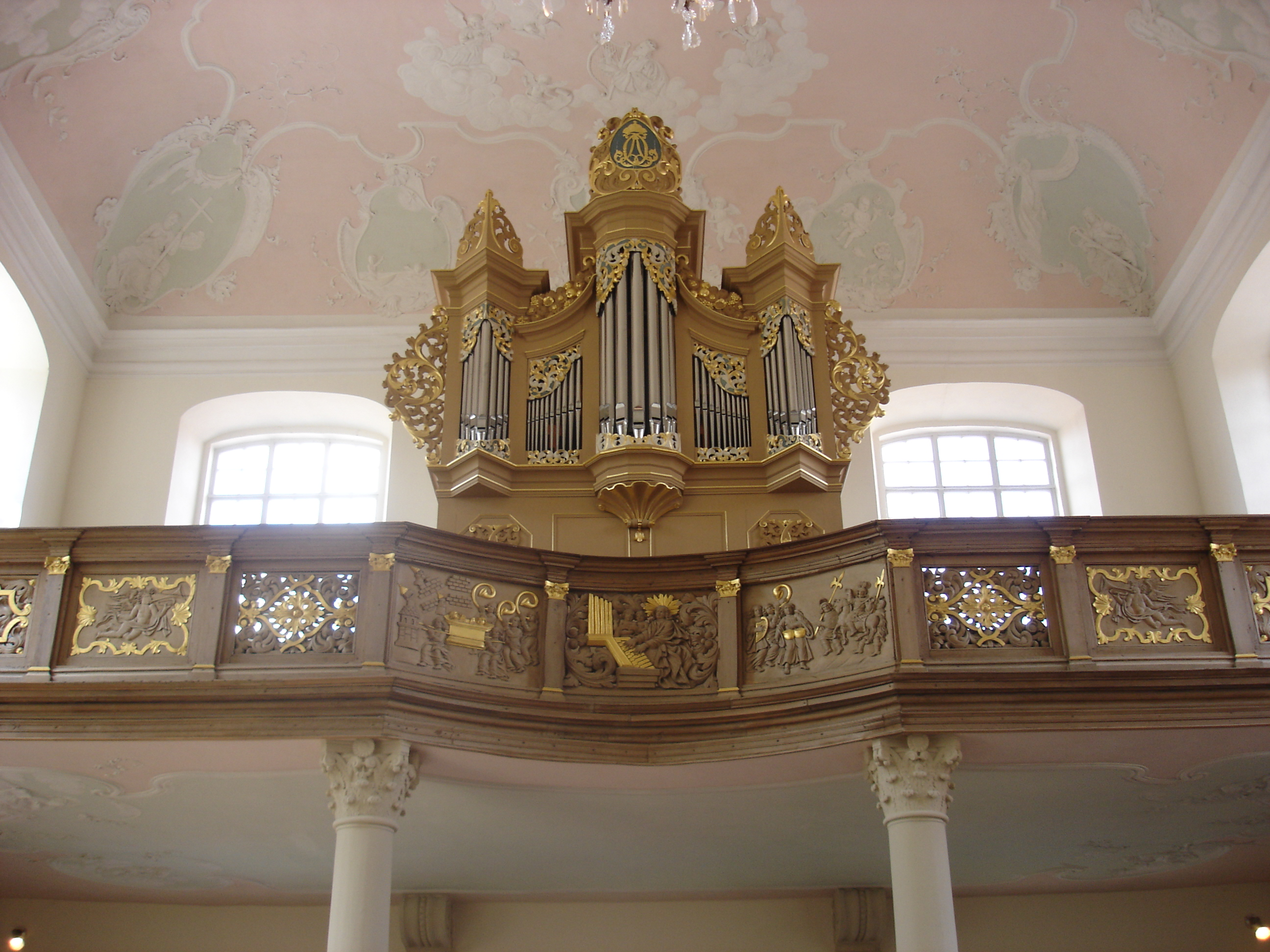 Gymnasial church in Meppen, Organ